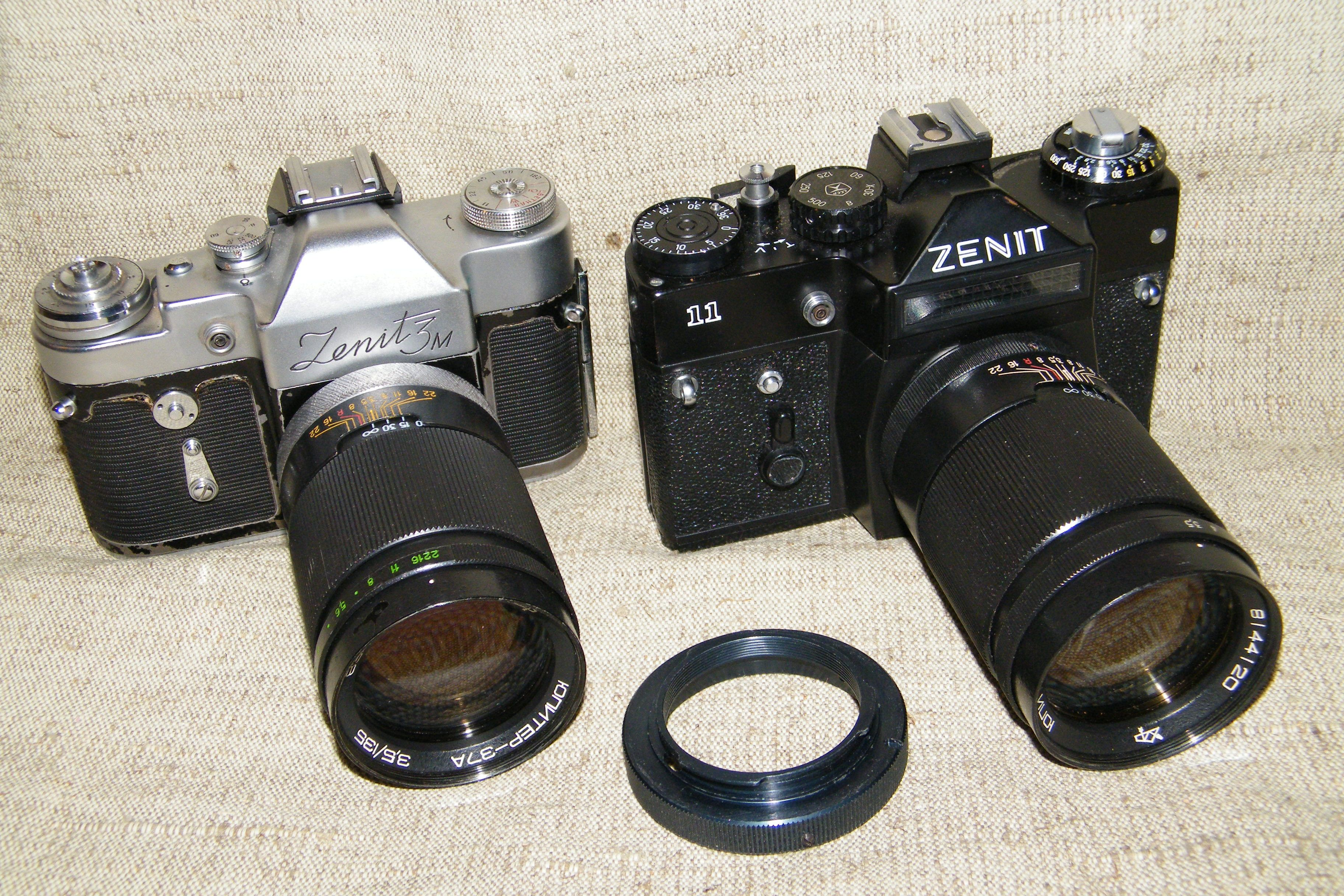 Зенит3М Зенит-11 Юпитер-37А